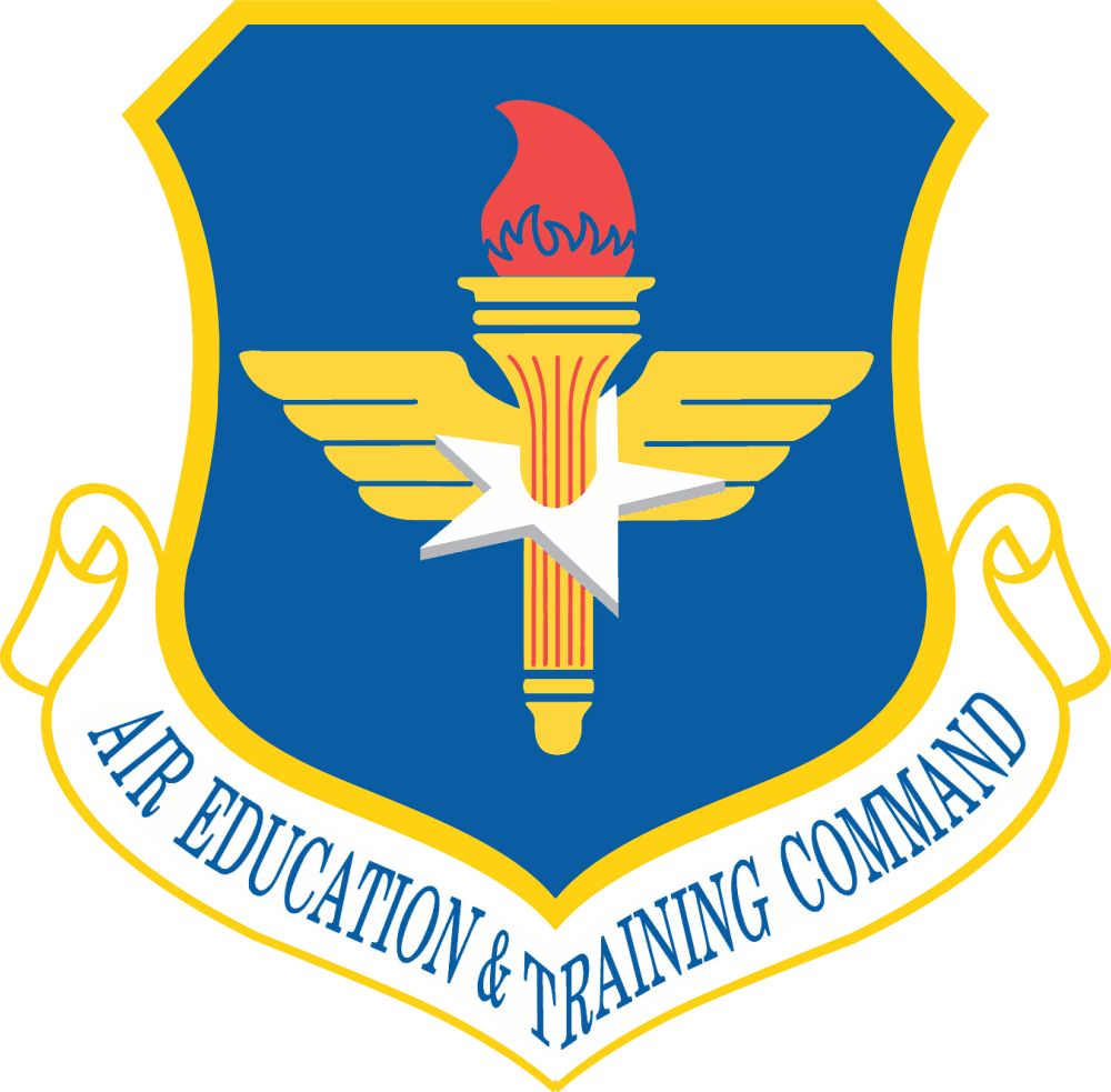 Emblem of Air Education and Training Command, a Major Command of the United States Air Force